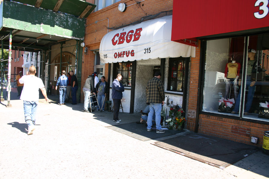 Original From: To: Creative commons license request granted Photo credit should read Sean O'Brien /